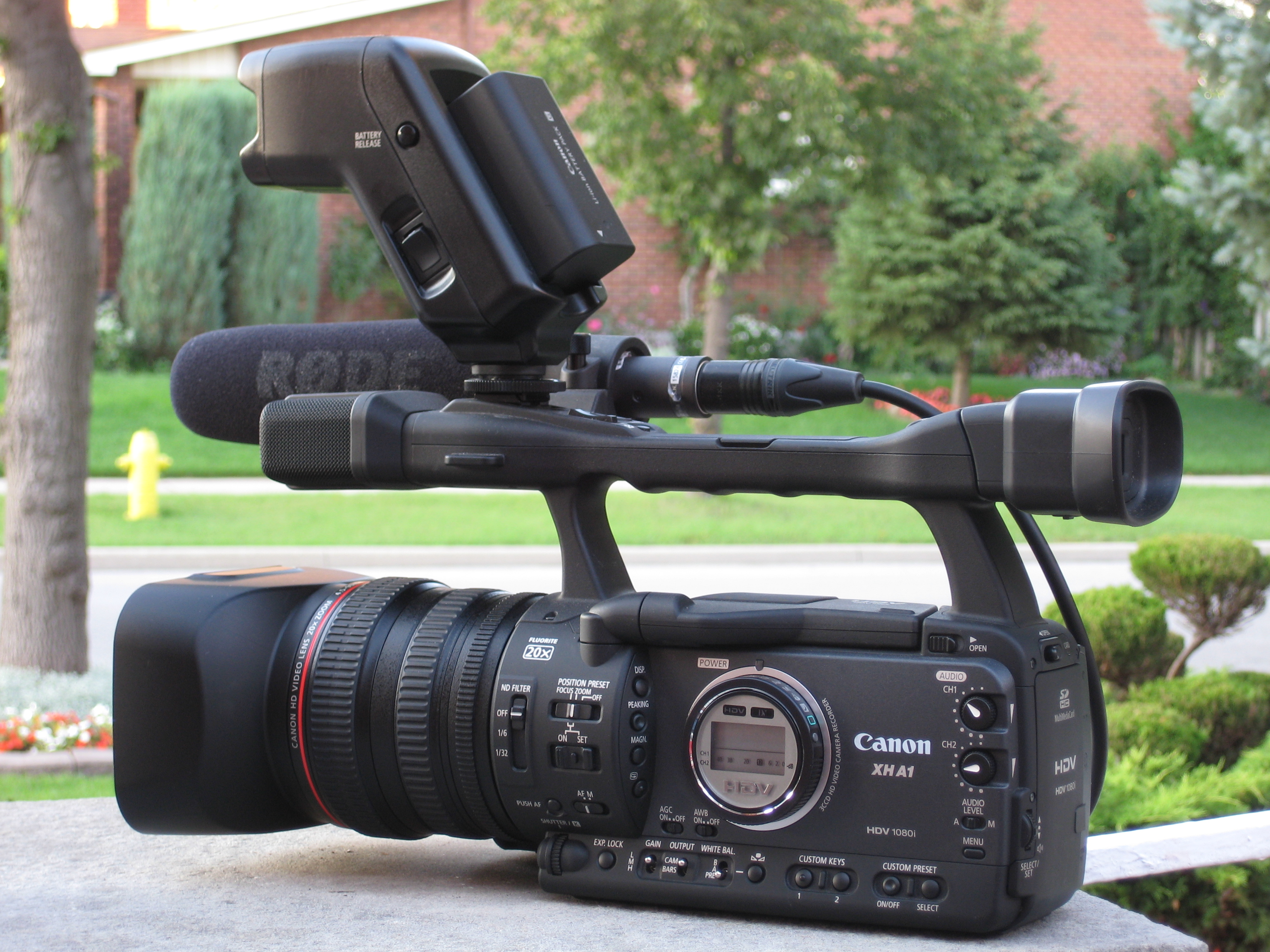 The Canon XH-A1 with a basic ENG package which consists of a top mounted hot/cold shoe light, shotgun microphone and 2 channels of XLR audio with phantom power (+48V). The lens is also protected by a clear 72mm UV filter to prevent physical damage such as abrasions and damage to the CCD and other internal components from strong UV light.